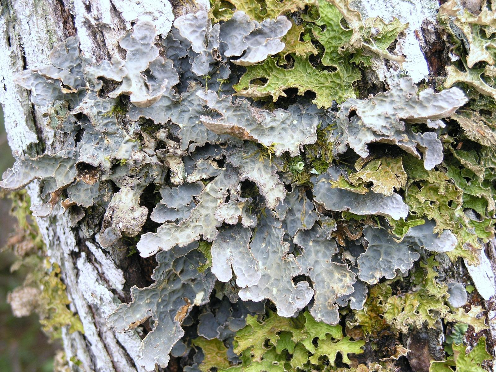 Lobaria scrobiculata growing on Acer rubrum trunk in New Brunswick, Canada.